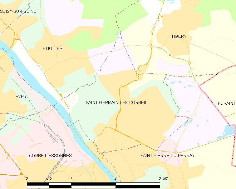 Map of French municipality Saint-Germain-lès-Corbeil